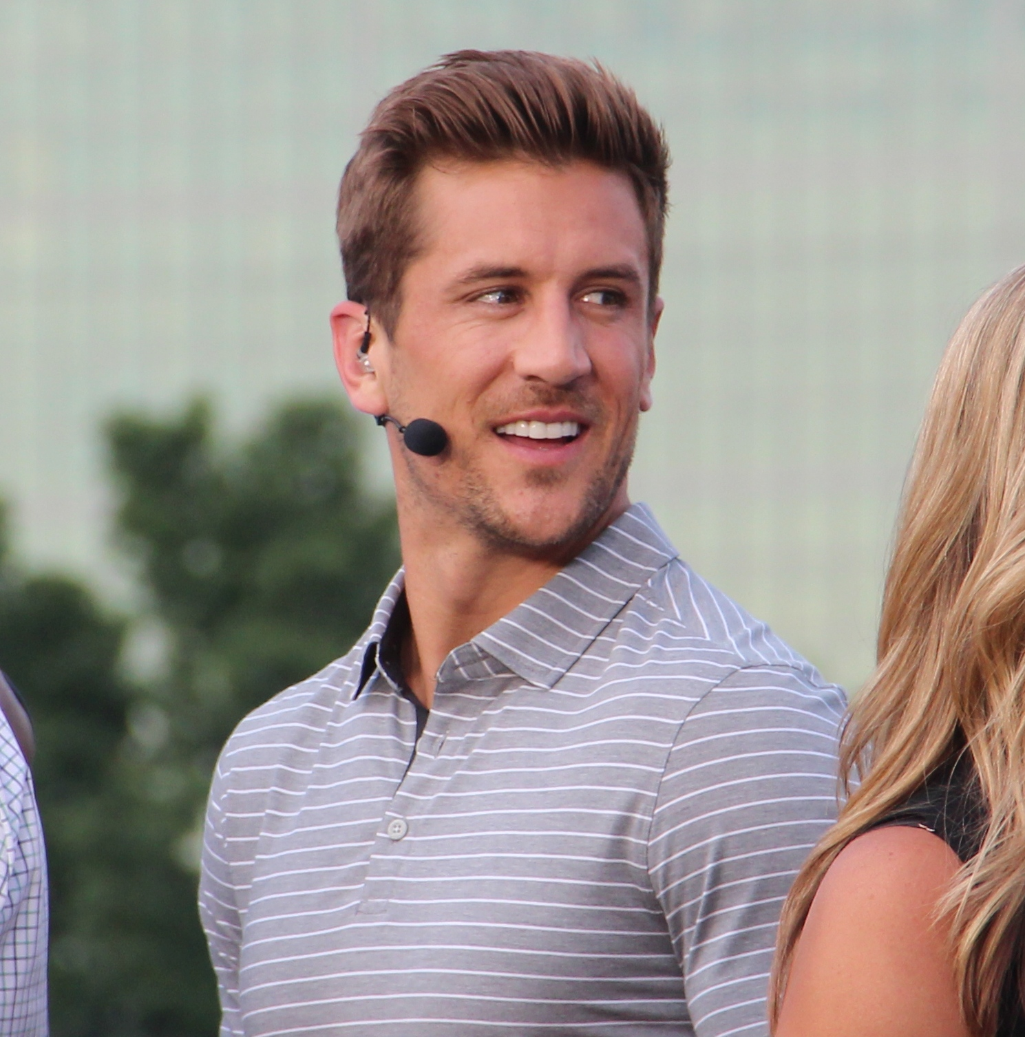 Jordan Rodgers at the 2018 SEC Summerfest